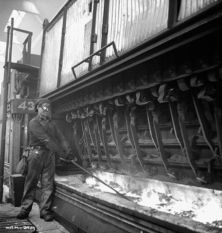 Workman Edgar Lapierre, wearing protective goggles, stirs the molten bath of aluminum with a poker at the Arvida Aluminum Company of Canada plant. Lapierre stirs the molten bath with a poker to remove gasses from under the electrode and lower the resistance of the bath to the passage of D.C. current electricity from electrode to carbon of pot. It is this electrolysis proceses that extracts the aluminum. The stirring allows the pot to operate normally again for about four hours."